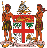 Fiji Coat of Arms